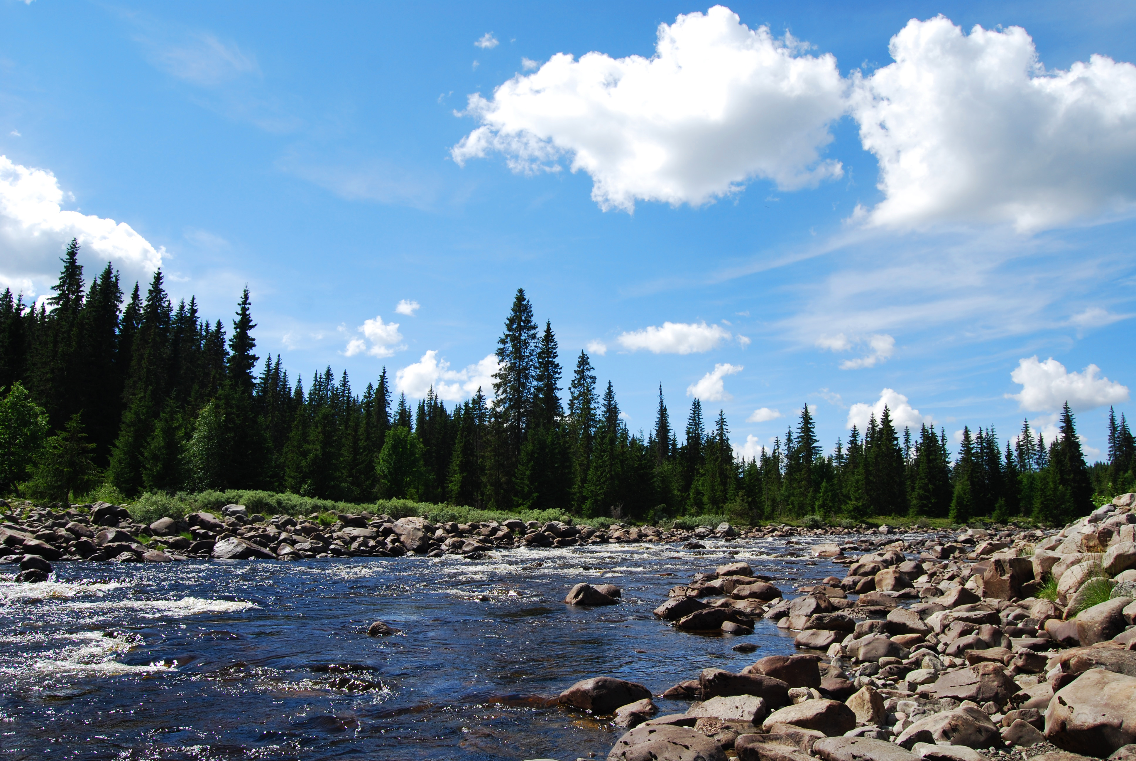 Åsta, a river in Hedmark. Picture is taken in northern Hamar, at Bringebu camping.